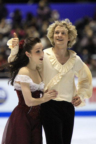 Meryl Davis & Charlie White during their free dance at the 2009-2010 Grand Prix Final.